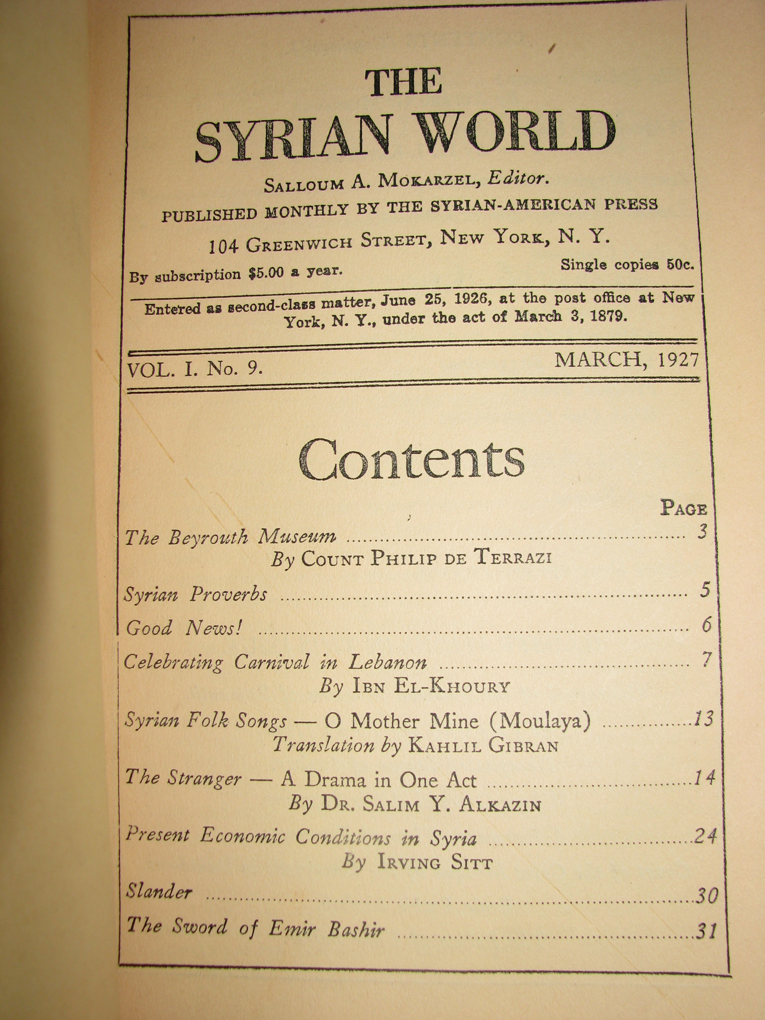 The Syrian World table of contents page